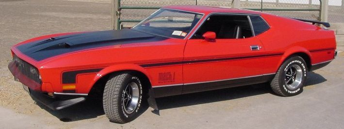 1972 Ford Mustang Mach 1 crop of flickr image